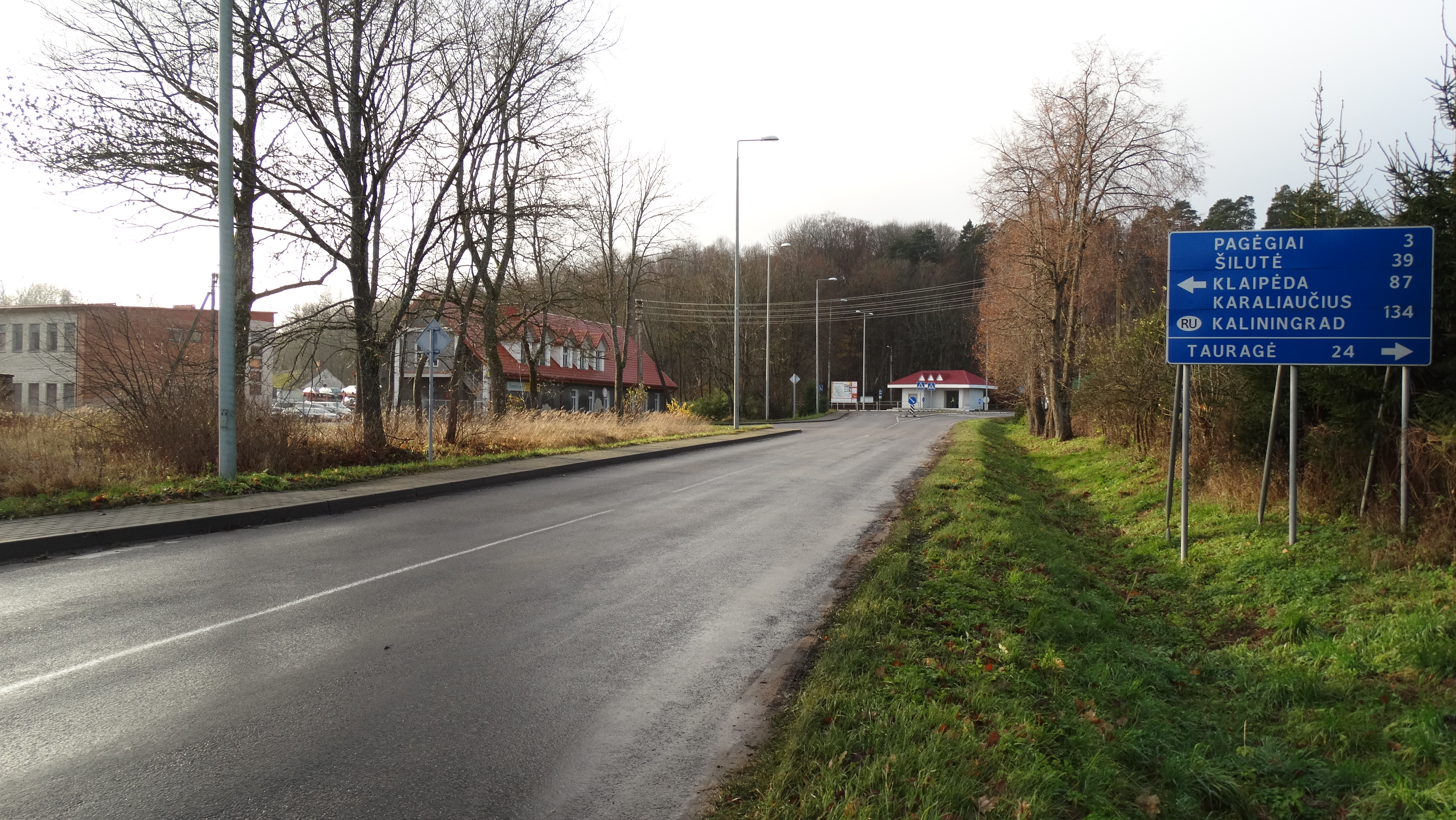 Mikytai, Pagėgiai Municipality, Lithuania